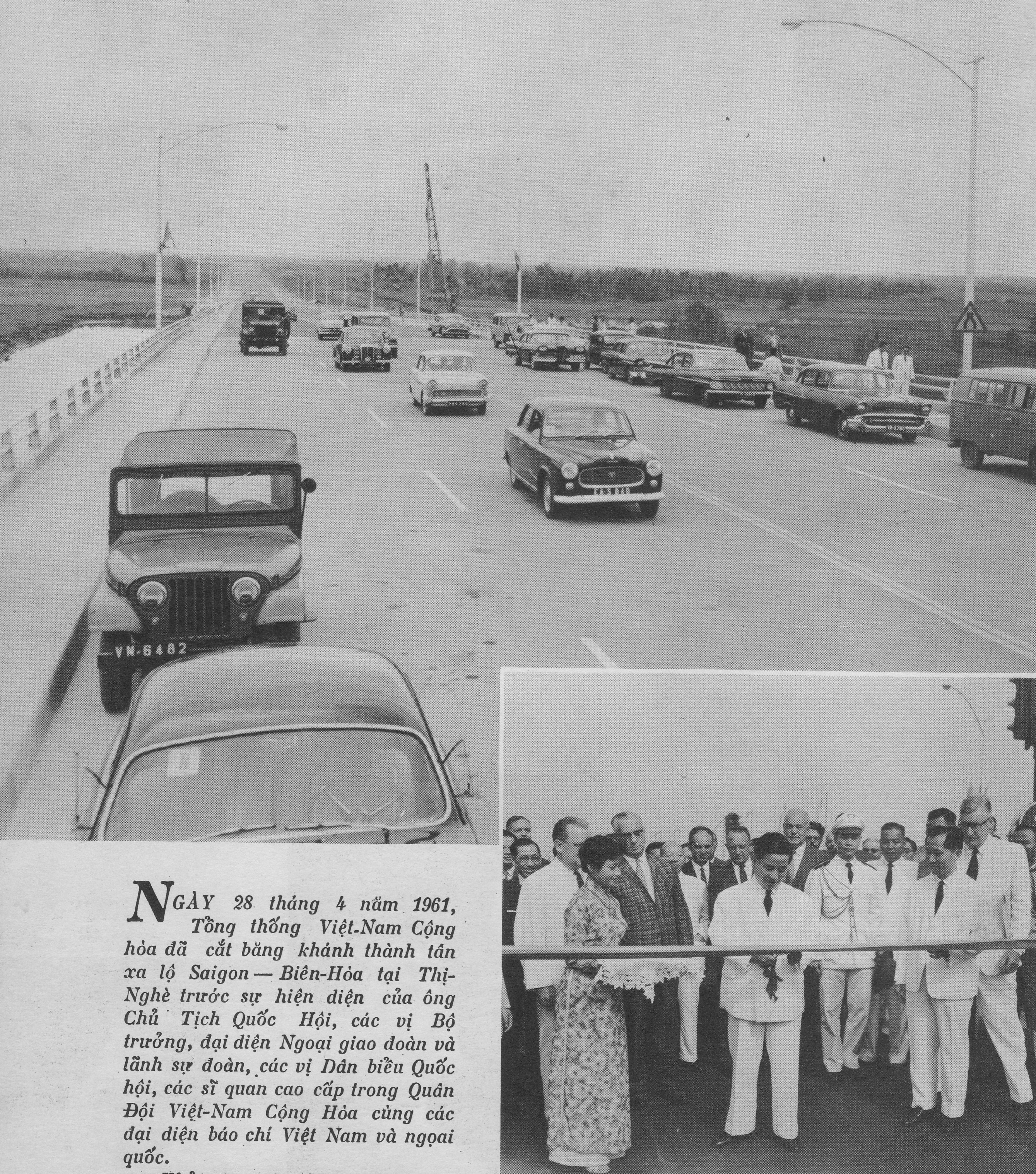 Opening of the Bien-hoa Highway by President Ngo Dinh Diem